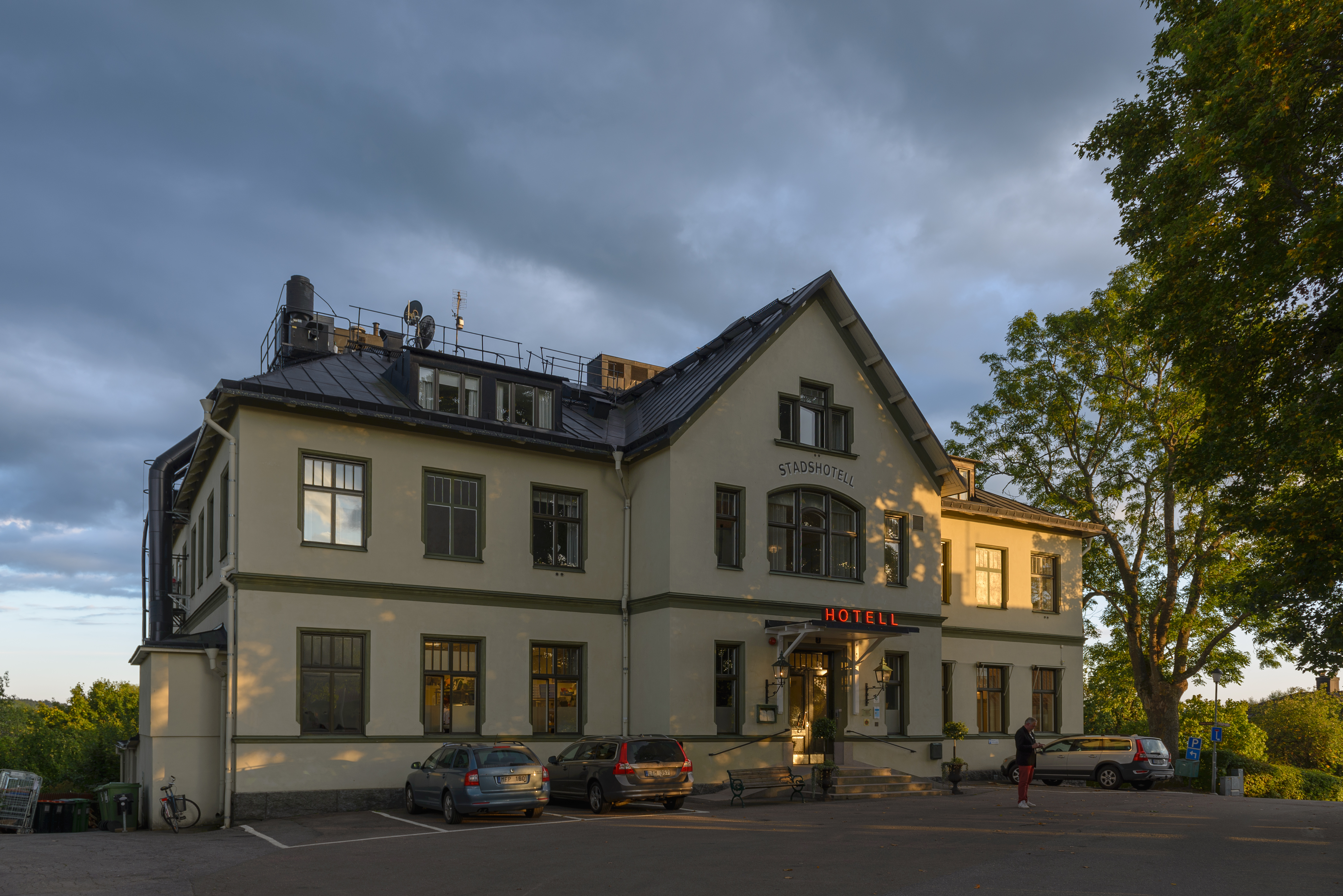 Sigtuna stadshotell (city hotel). Sigtuna, Stockholm County.